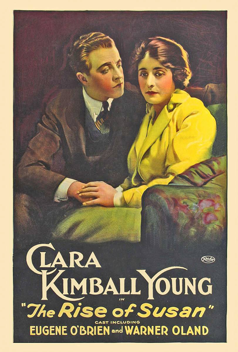 The Rise of Susan is a 1916 silent film made by the Peerless Film Company and distributed by World Film. This is a lobby poster for the film.